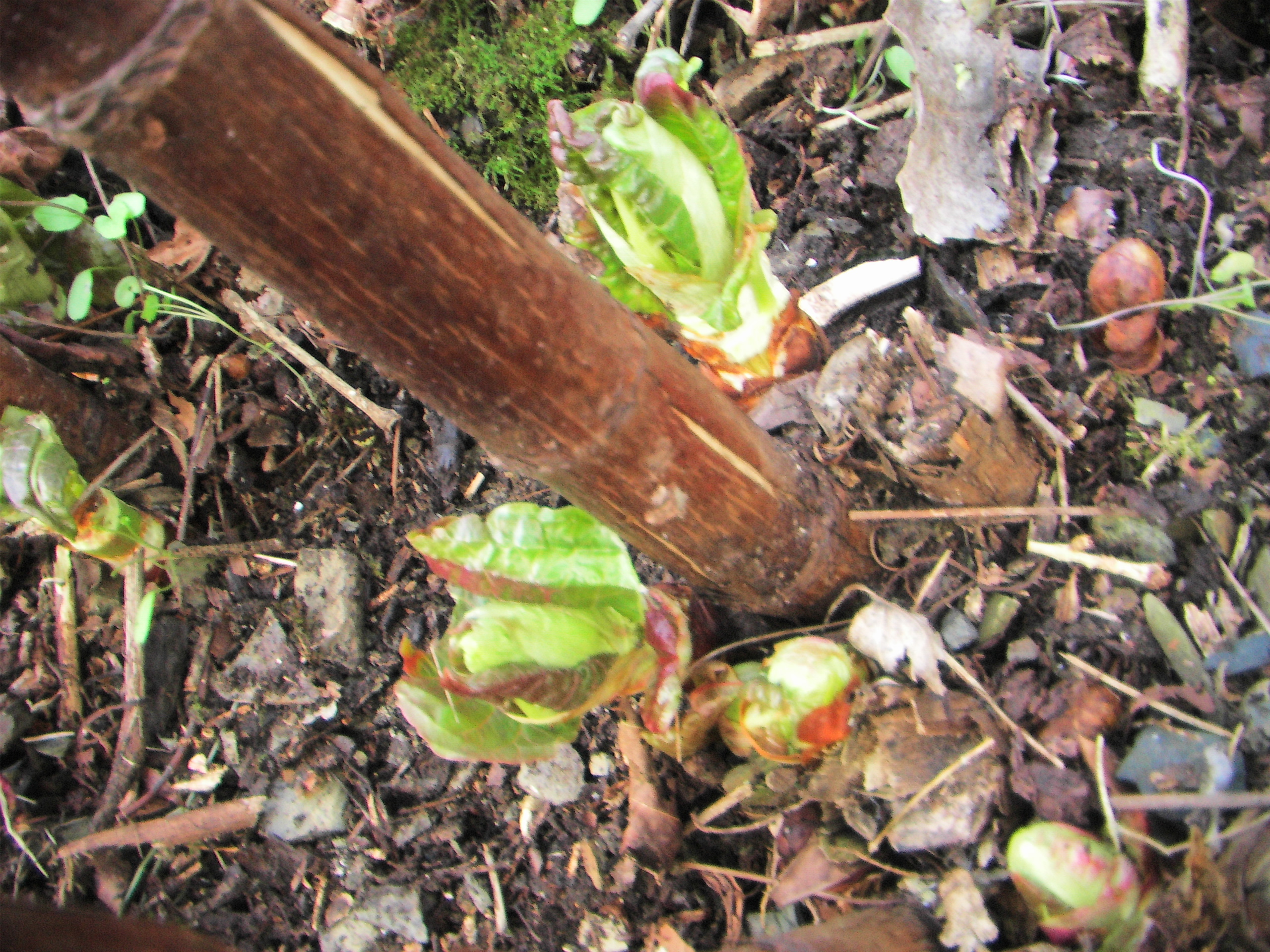 Velocicaptor